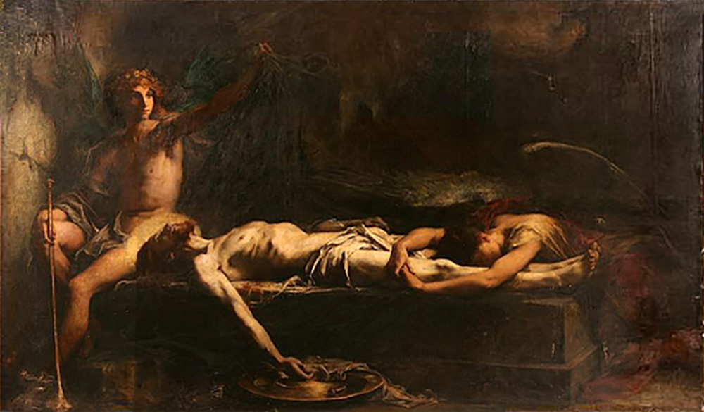 The Dead Christ with Angels